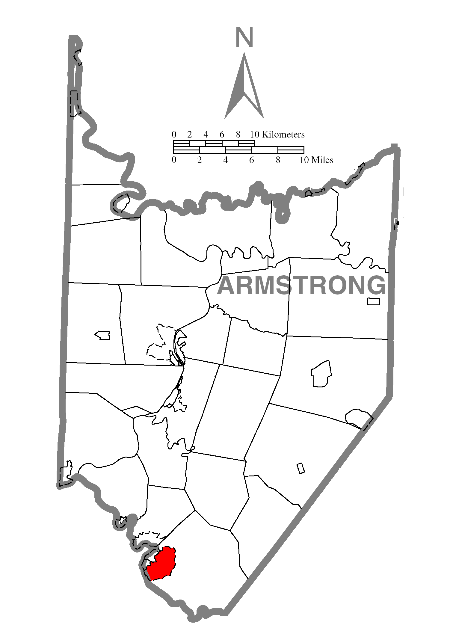 A map of Armstrong County showing Orchard Hills, Pennsylvania (alternate) highlighted on the map.